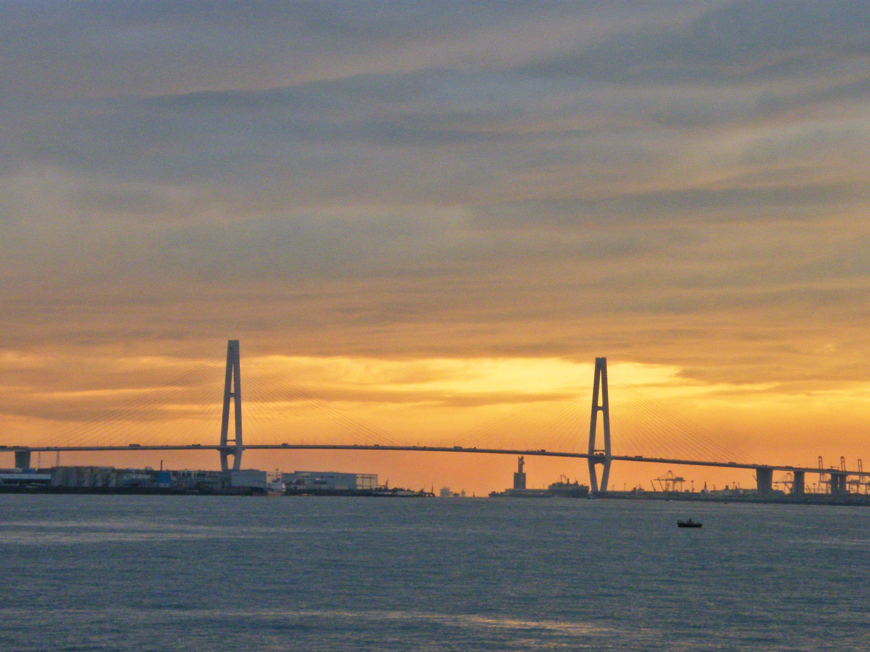 The Port of Nagoya, in Nagoya, Japan.